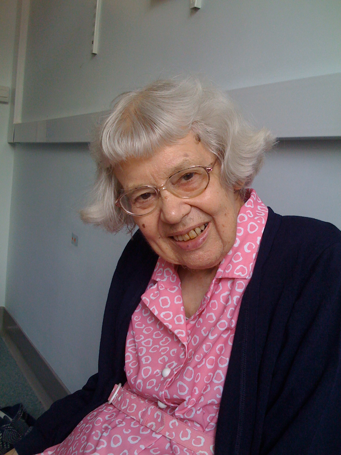 Photo of an English geneticist Mary Frances Lyon.